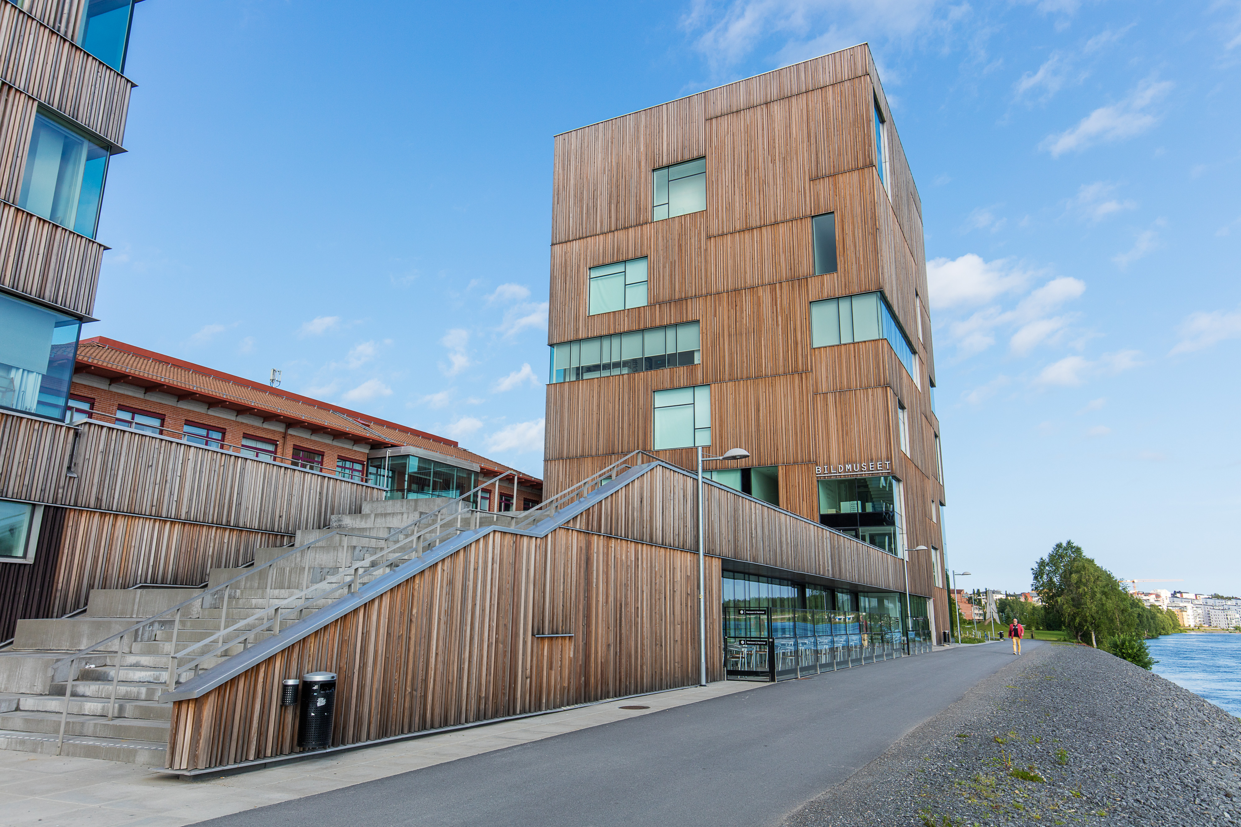 Bilmuseet, at the Umeå University Arts campus.